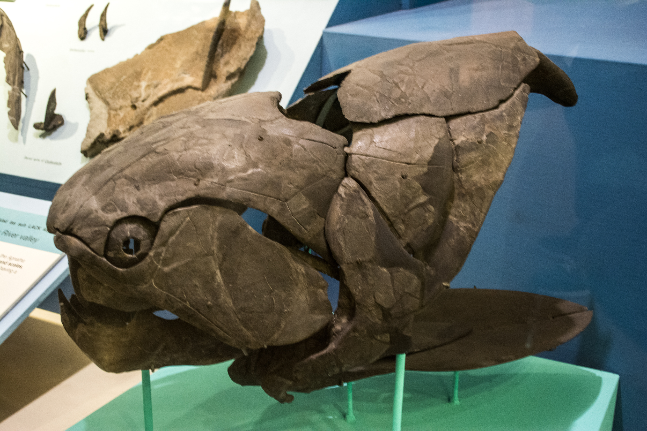 Juvenile Dunkleosteus terrelli skull, on display at the Cleveland Museum of Natural History in Cleveland, Ohio, in the United States. The original fossil skull was collected by Peter Bungart in 1941 from the Cleveland Shale along the Black River in Lorain County, Ohio. Dunkleosteus terrelli was a prehistoric fish that lived about 380 to 360 million years ago. Unlike modern fish, it had massive, heavy bones in its skull. It was a carnivore that was about 33 feet long, making it the second-largest predator in the ocean at the time. It was not very fast, but it was a powerful swimmer -- and its bite was one of the most powerful ever found in nature. Dunkleosteus terrelli was first discovered in 1873. At the time, scientists thought it was part of the species Dinichthys, but they have since realized it was a separate species. Dunkleosteus was renamed in 1956. The name honors David Dunkle, a paleontologist at the Cleveland Museum of Natural History. There are several sub-species, but Dunkleosteus terrelli is the largest. It has been found throughout the U.S. (Ohio, Pennsylvania, Tennessee, California, and Texas).